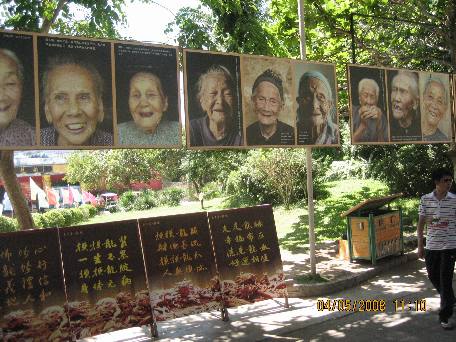 Hainan